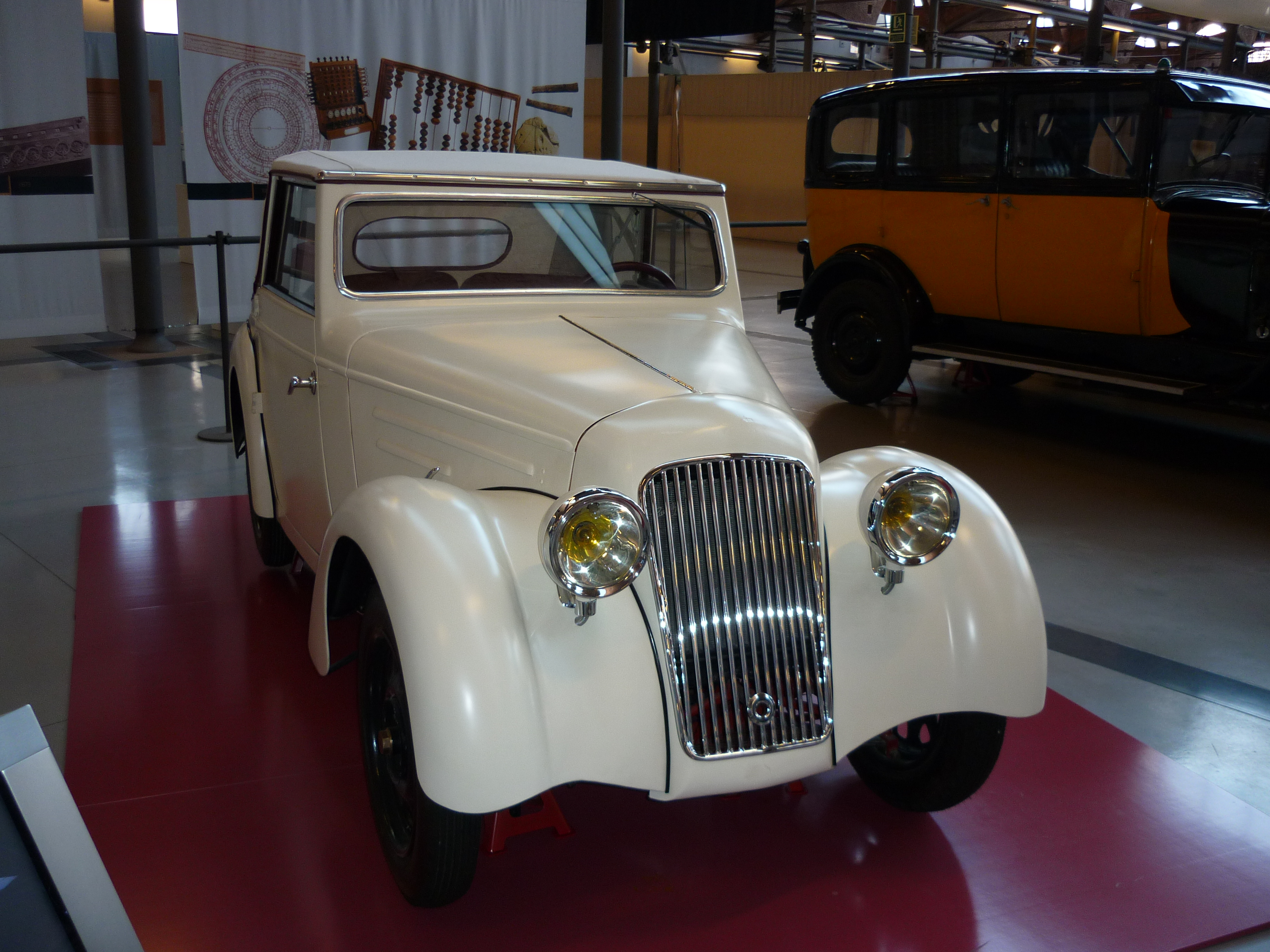 The only AFA car ever built, dated 1943, made in Barcelona (Catalonia)